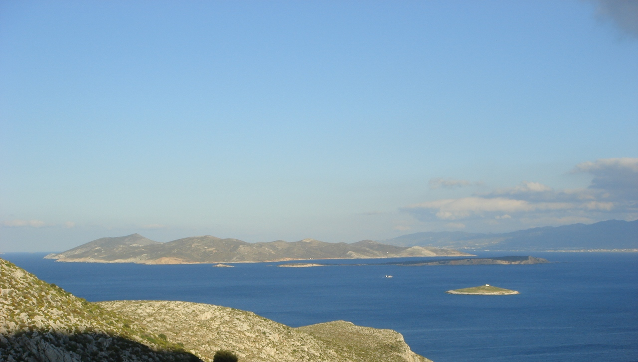 Sarris islet, Plati and Pserimos islands, view from Kalymnos